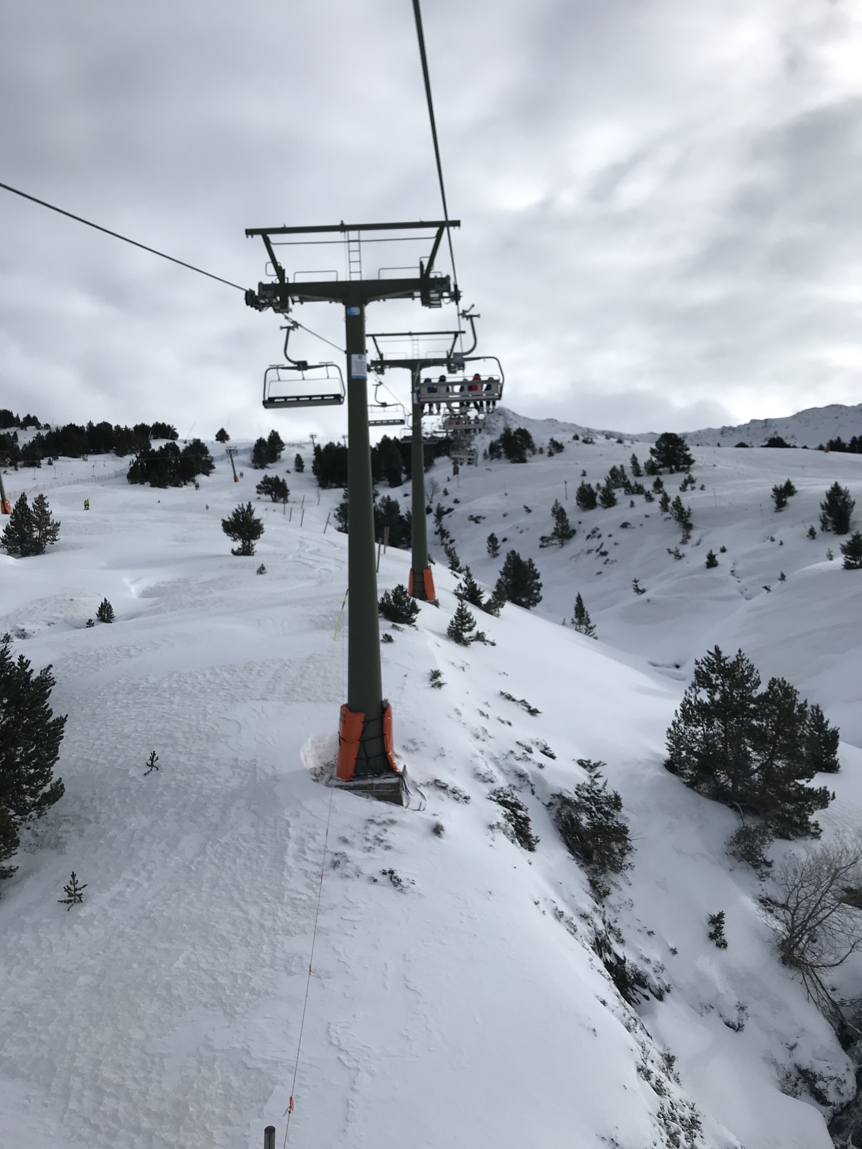 Baqueira